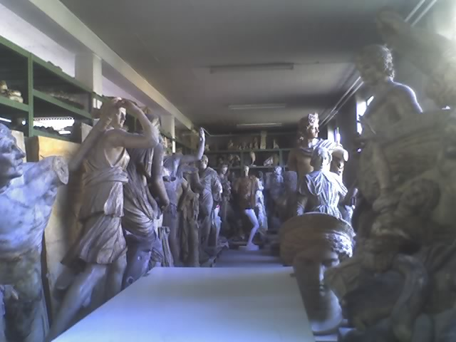 Interior of the storage room of the Gipsformerei in Berlin, Germany.